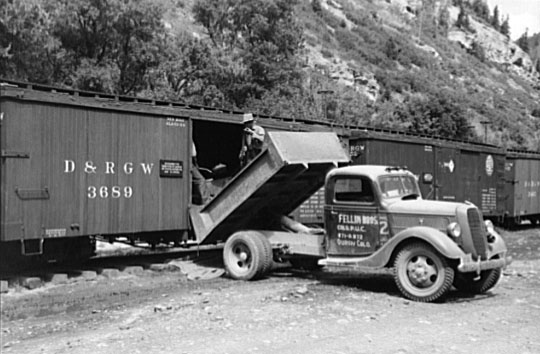 Loading gold ore concentrate into freight cars of the Denver & Rio Grande Western narrow gauge railroad, Ouray, Colorado. The truck is either Model 79 ir Model 75.